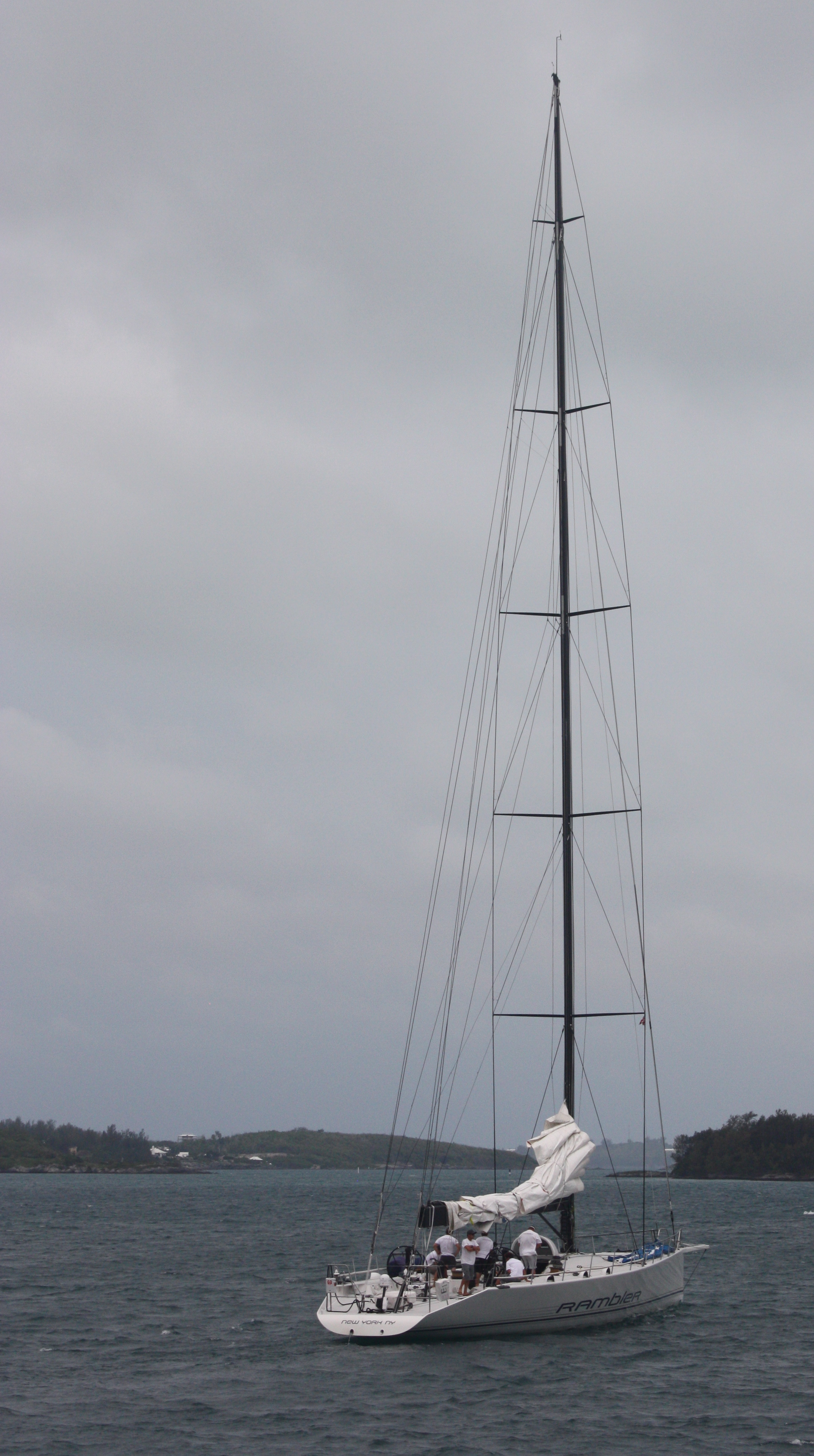 The 90-foot yacht Rambler after winning the 2012 635 nautical mile Newport-Bermuda Race